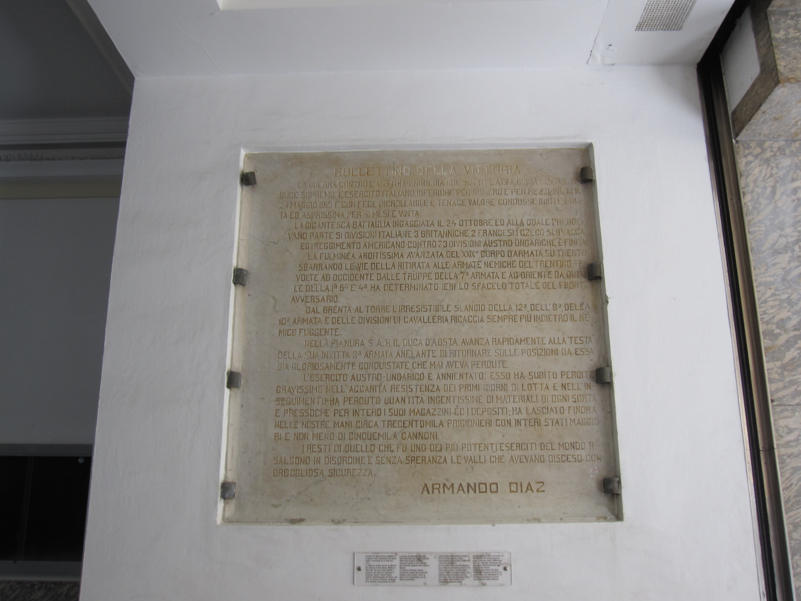 Fascist plaque installed by the government of Benito Mussolini, giving their version of World War I with a quote by general Armando Diaz. At the Rathaus (town hall) of Meran, South Tyrol.